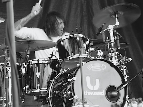 Dan Whitesides of The Used - Live in Concert (photo by Scott Dudelson)